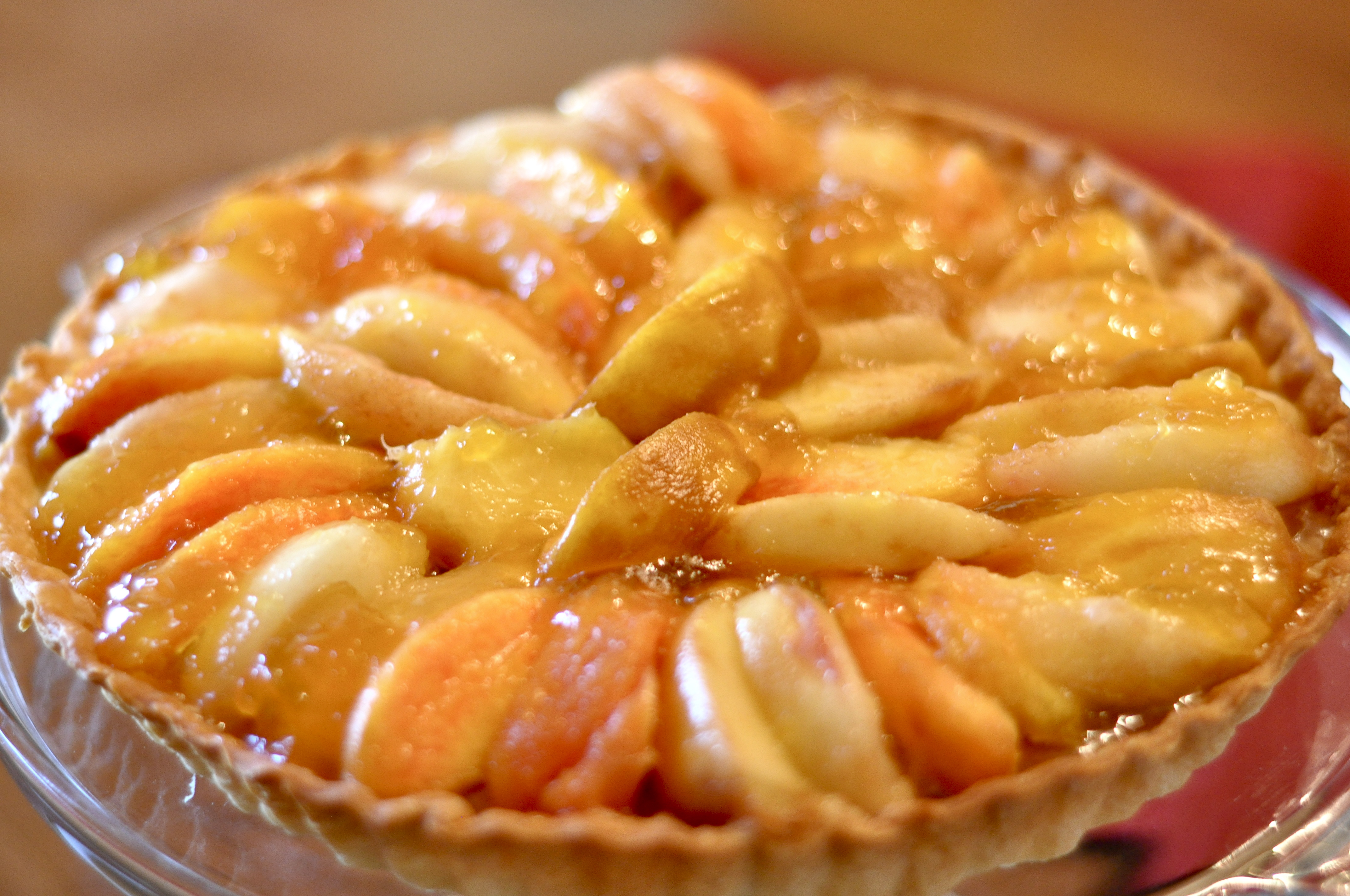 Peach-Frangipane Tart.